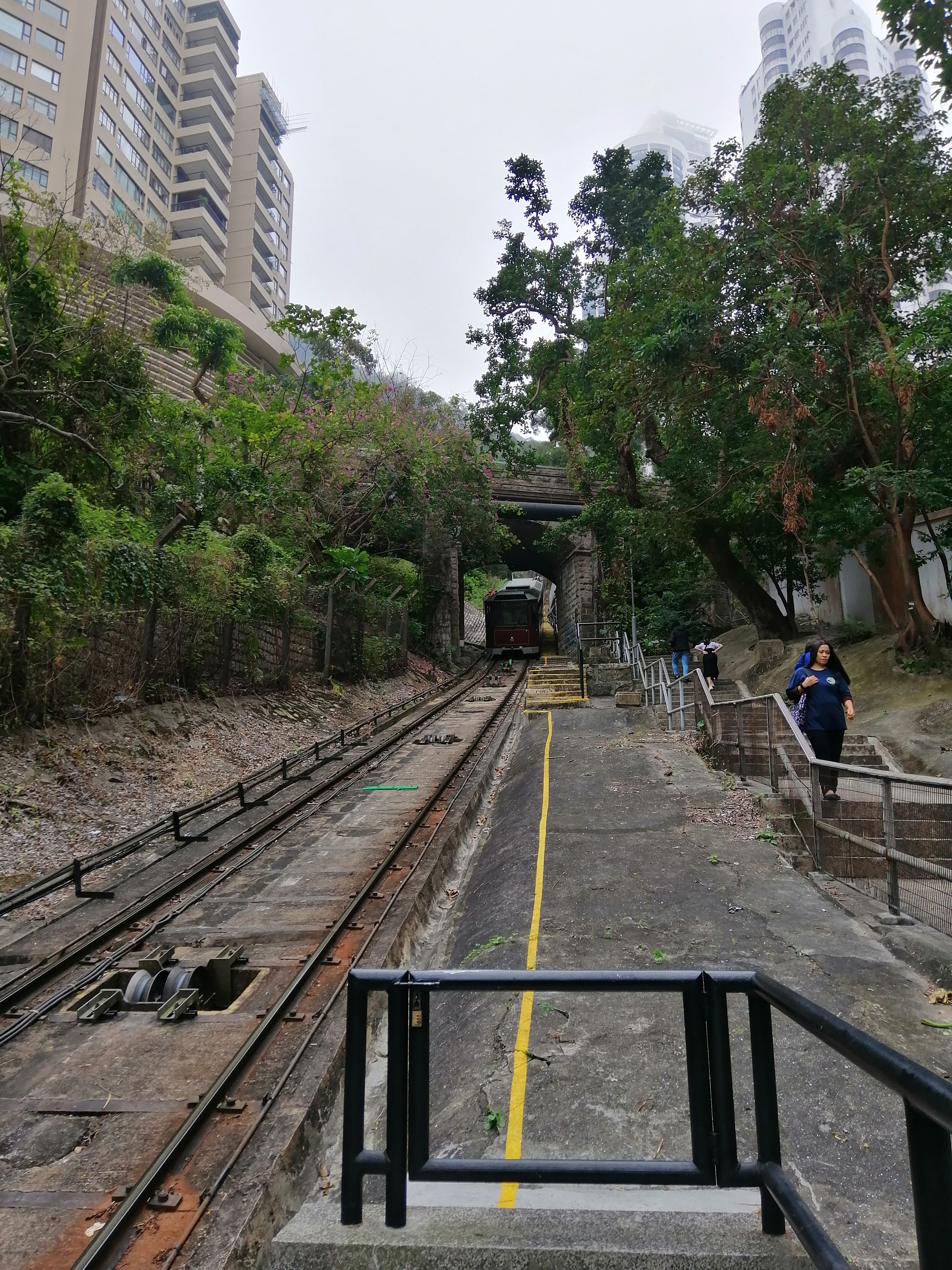 macdonnell road tram station